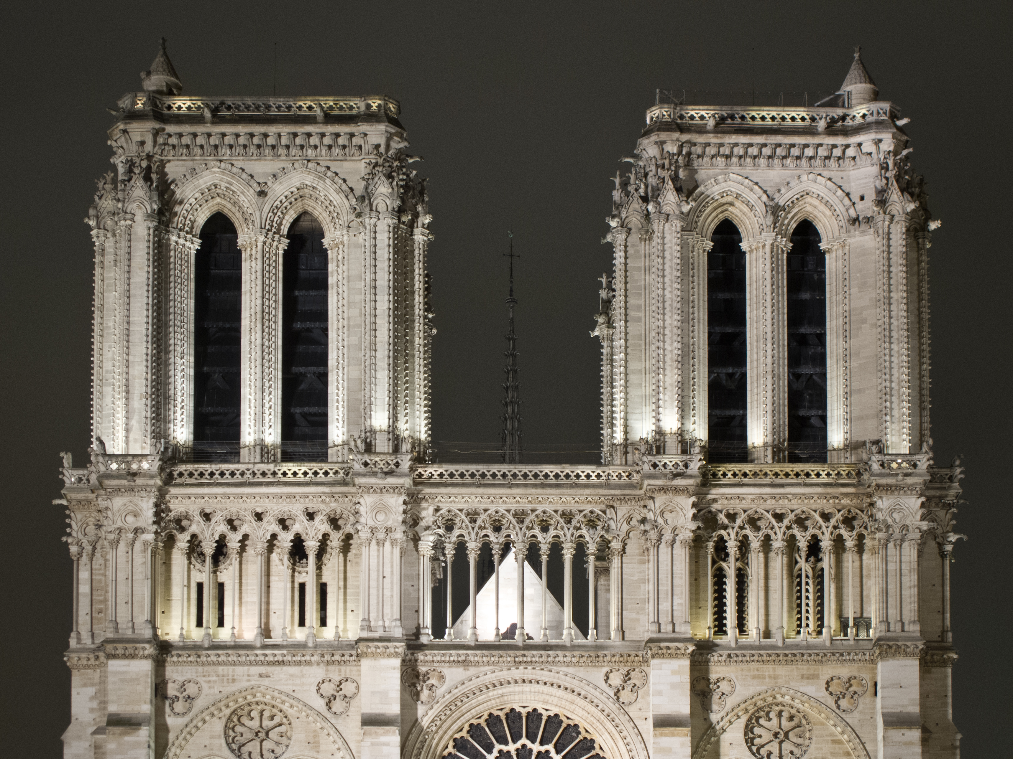 The upper part of the western facade of the Cathedral of Notre-Dame of Paris, France, at night.